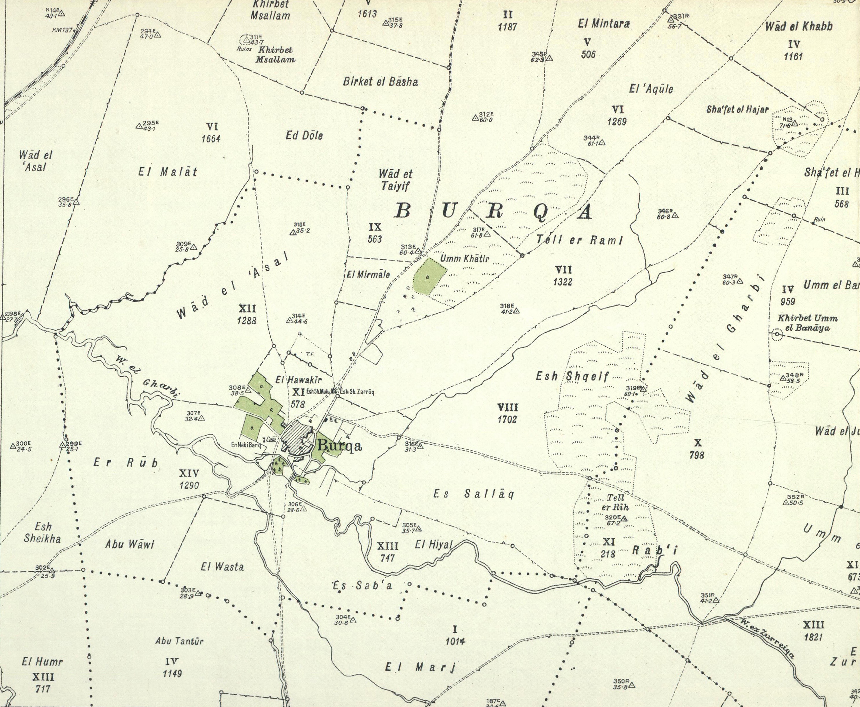 1930 map, 1:20,000